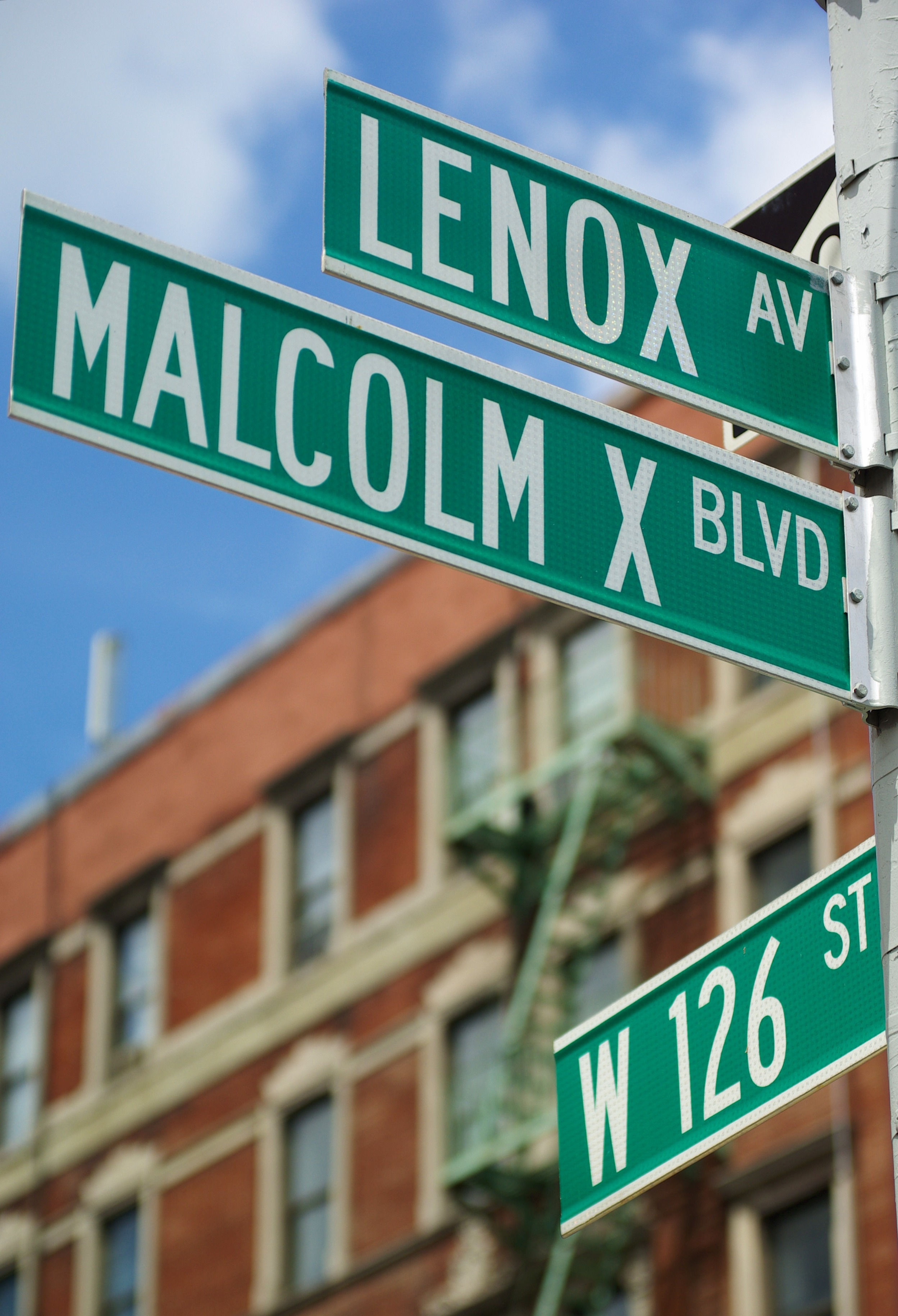 Street sign at corner of Malcolm X Boulevard and West 126th Street, Harlem, New York.